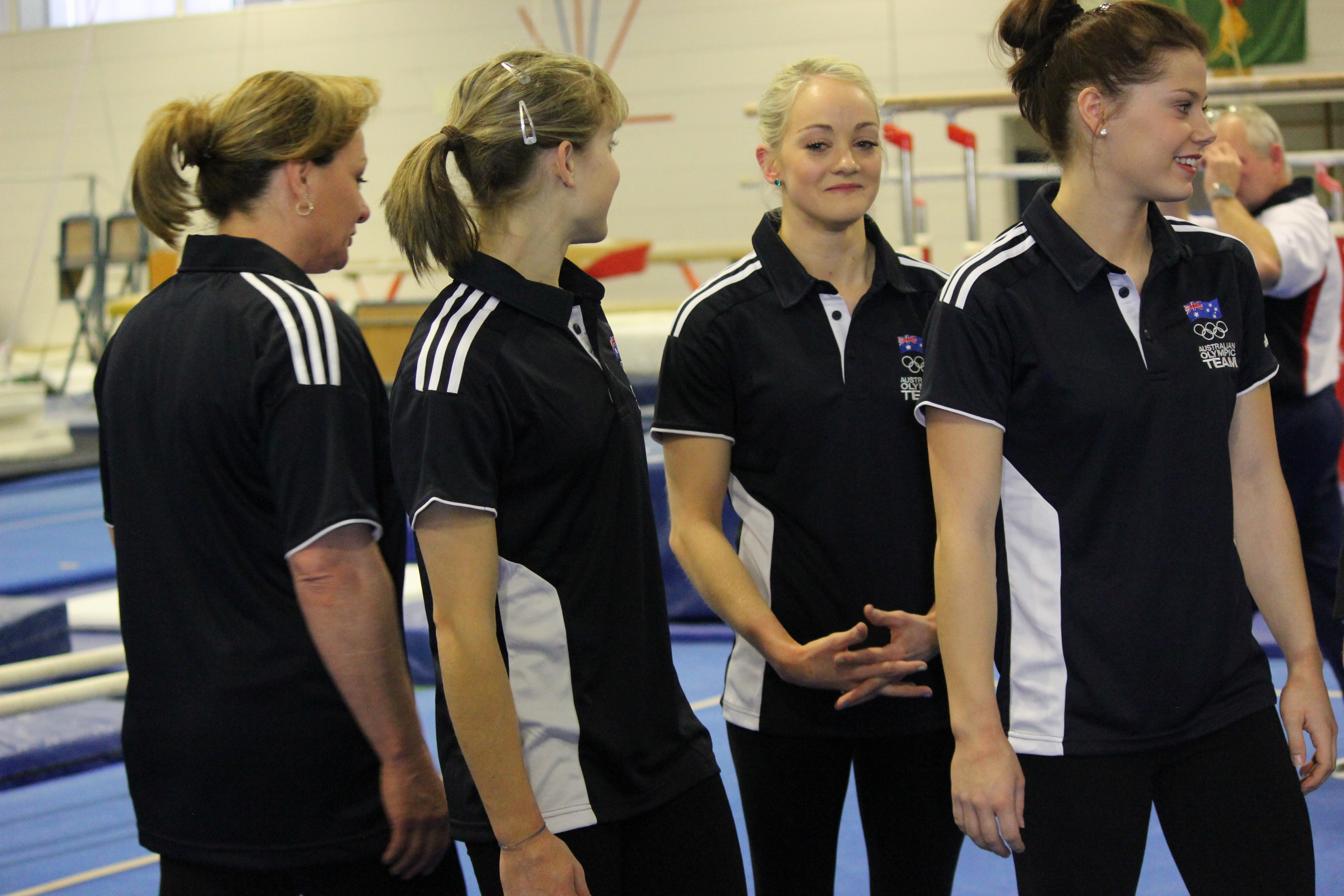 21 June 2012 at the Australian Institute of Sport Gymnastic Centre for the press event announcing the artistic gymnastics team for the London 2012 Summer Olympics attended by Tony Abbott and Kate Lundy. Left to right: Peggy Liddick (head coach), Lauren Mitchell, Larrissa Miller, Georgia Bonora